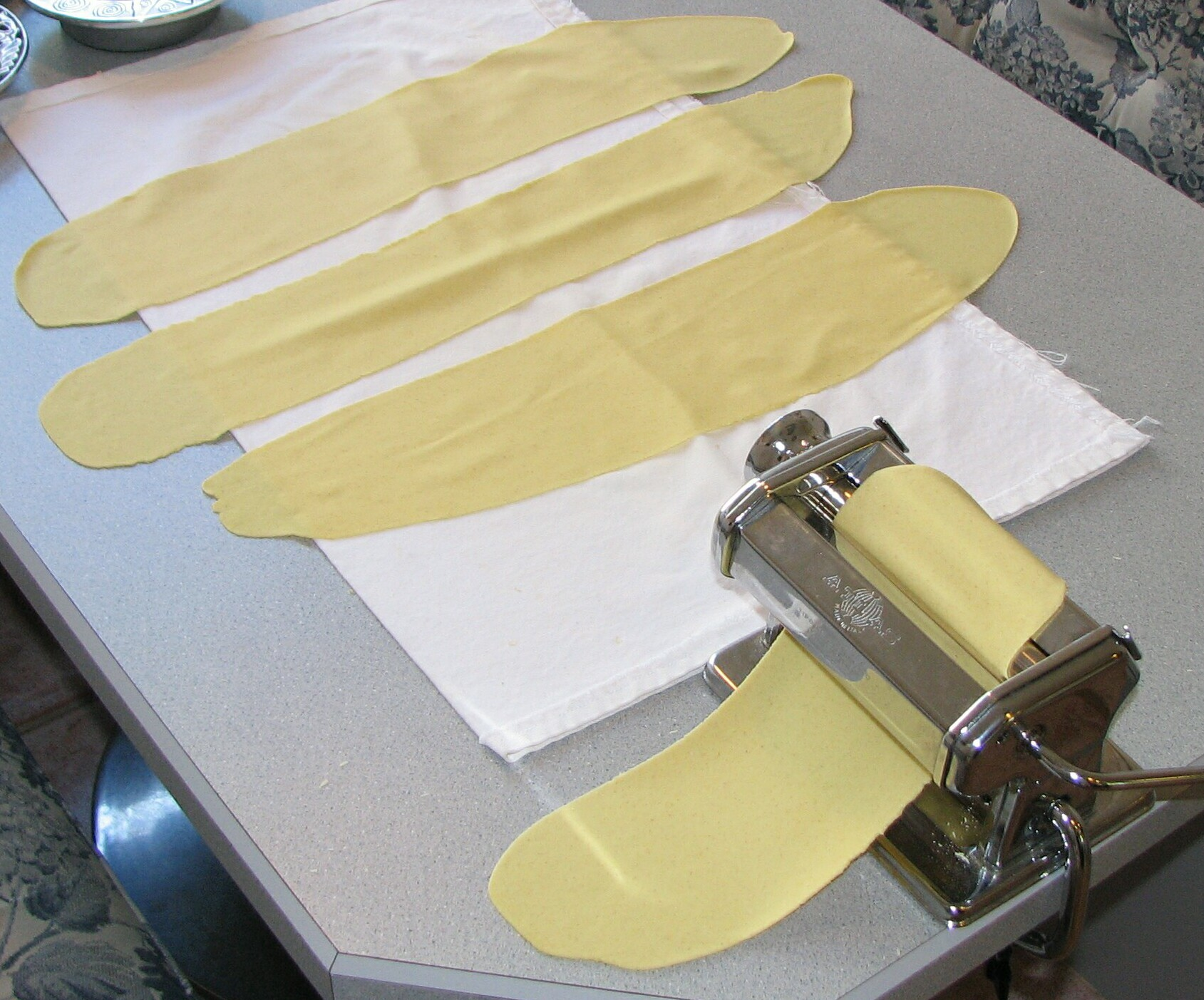 This is a photograph of alkaline pasta being rolled out by an Italian pasta machine, and of several strips of pasta that have already been processed. See Alkaline pasta